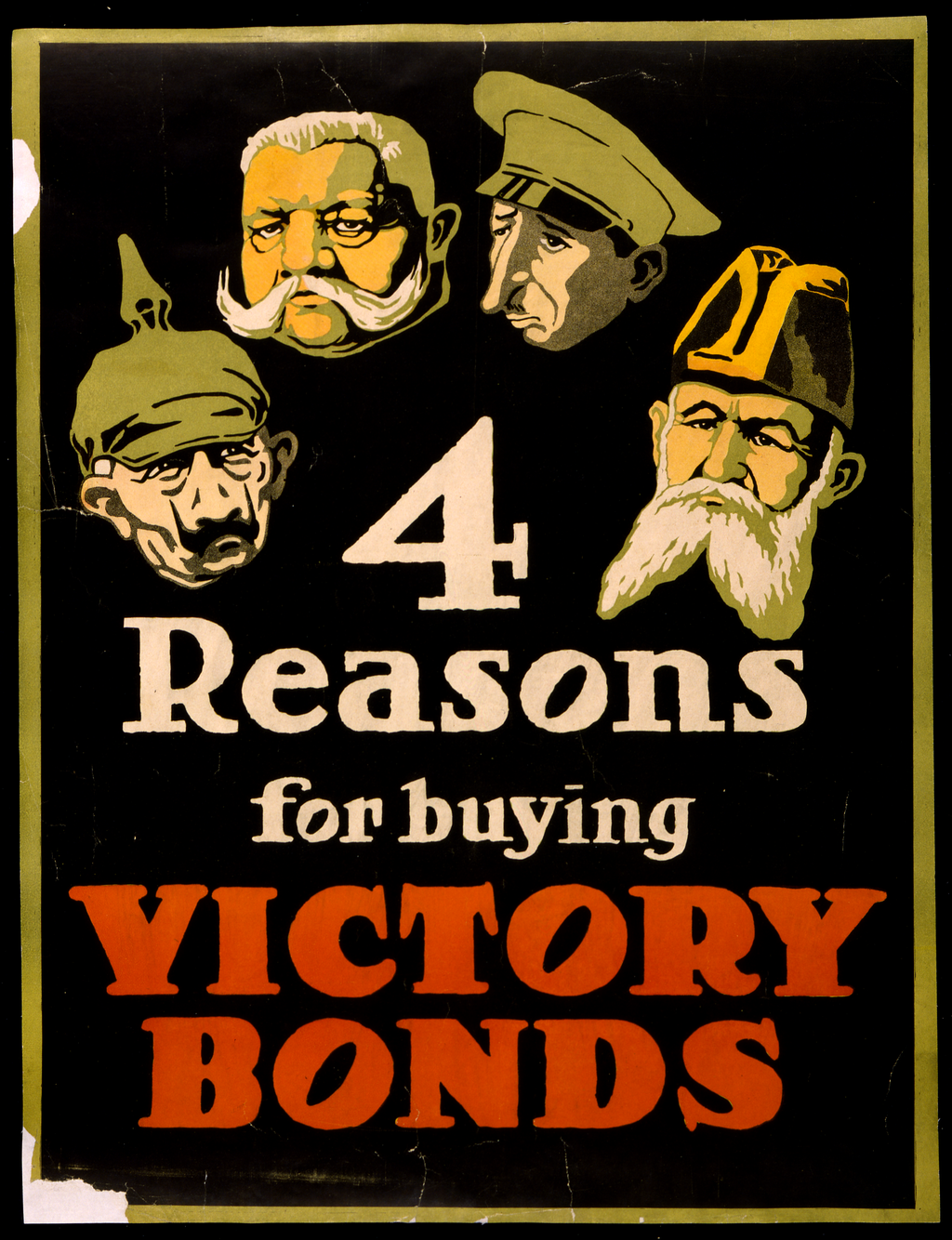 "4 Reasons for Buying Victory Bonds" by unknown, Canadian Government created, 1917. Poster has caricature heads of the leaders of Imperial Germany against the Allies in World War I. Left to right: Kaiser Wilhelm II, the German emperor; Field Marshal Paul von Hindenburg, the chief of the German General Staff; Crown Prince Wilhelm, heir to the throne; and Grand Admiral Alfred von Tirpitz, commander in chief of the German Navy.